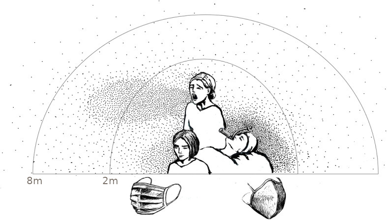 Original caption in source article: "Droplet transmission and high-risk procedures (potentially generating aerosol). Inner/outer semicircle indicate 2/8 m distance from the patients (center). Center-Right: A high-risk transmission procedure is depicted (“potentially aerosol generating procedure”), where a FFP2 mask is required. Center-Left: Uncontrolled coughing in hospital may cause a turbulent gas cloud to spread beyond 2 m [21]. Regular speech, even in asymptomatically infected patients may generate infectious droplets that travel 1-2 m. This is the rational of HCW to wear surgical masks in the hospital when caring for patients" (sic; "rationale for HCWs") Modified by uploader to include radial distances marked in meters on the graphic.